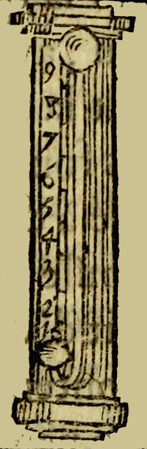 An image of a double bulb (dutch) thermometer, with temperature shown on a 1-9 scale similar to that presented by Johann Hasler in 1578